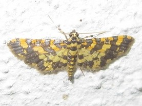 Eurrhyparodes tricoloralis moth, Crambidae , Spilomelinae picture taken in Réunion